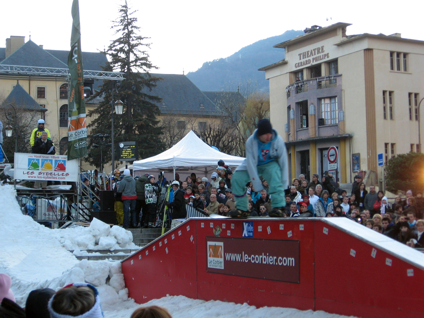 Snowboard grindin' at the Forum in Saint-Jean-de-Maurienne.